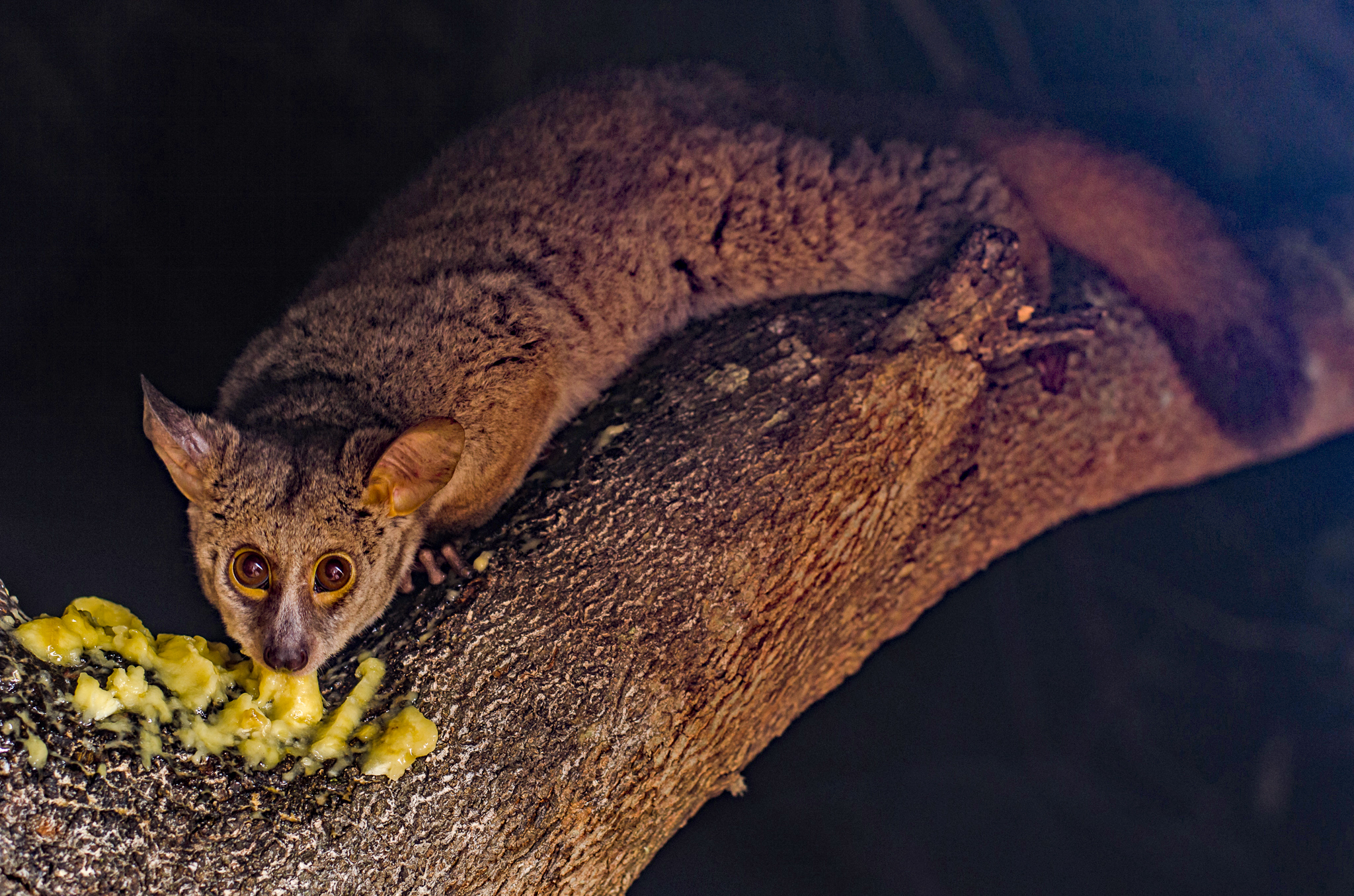 A wild Brown Greater Galago eats banana in Hluhluwe